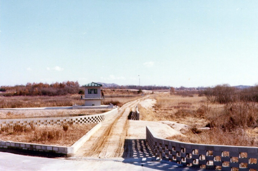 This is a view from CP#3 south towards Taesong-dong. The flag from Taesong-dong is in the center of the picture. KPA#8 is to the left. The hill behind KPA#8 is (was) Guard Post (GP) Collier. The area to the left of KPA#8 is the depression area where Lt. Mark Barrett's body was found after the Axe Murder Incident. (Photo March 1976)